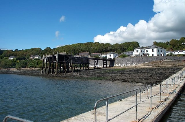 Burton Ferry. This shows the disused pier and Trinity House. Trinity House was built in 1861 as a depot for lightships and lighthouses between Swansea and North Wales with the jetty providing a landing stage and storage in its underslung rooms.